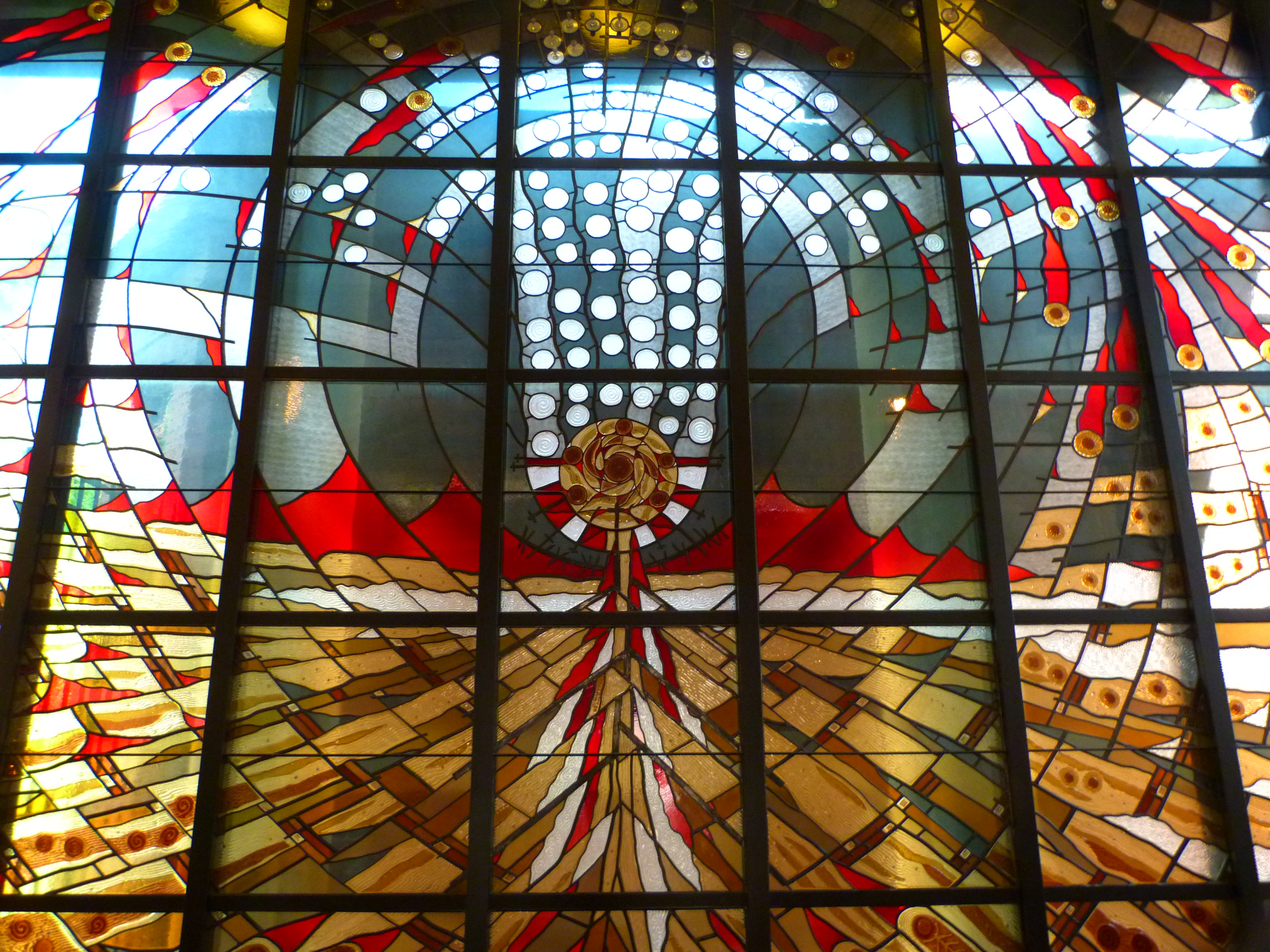 st james, sydney